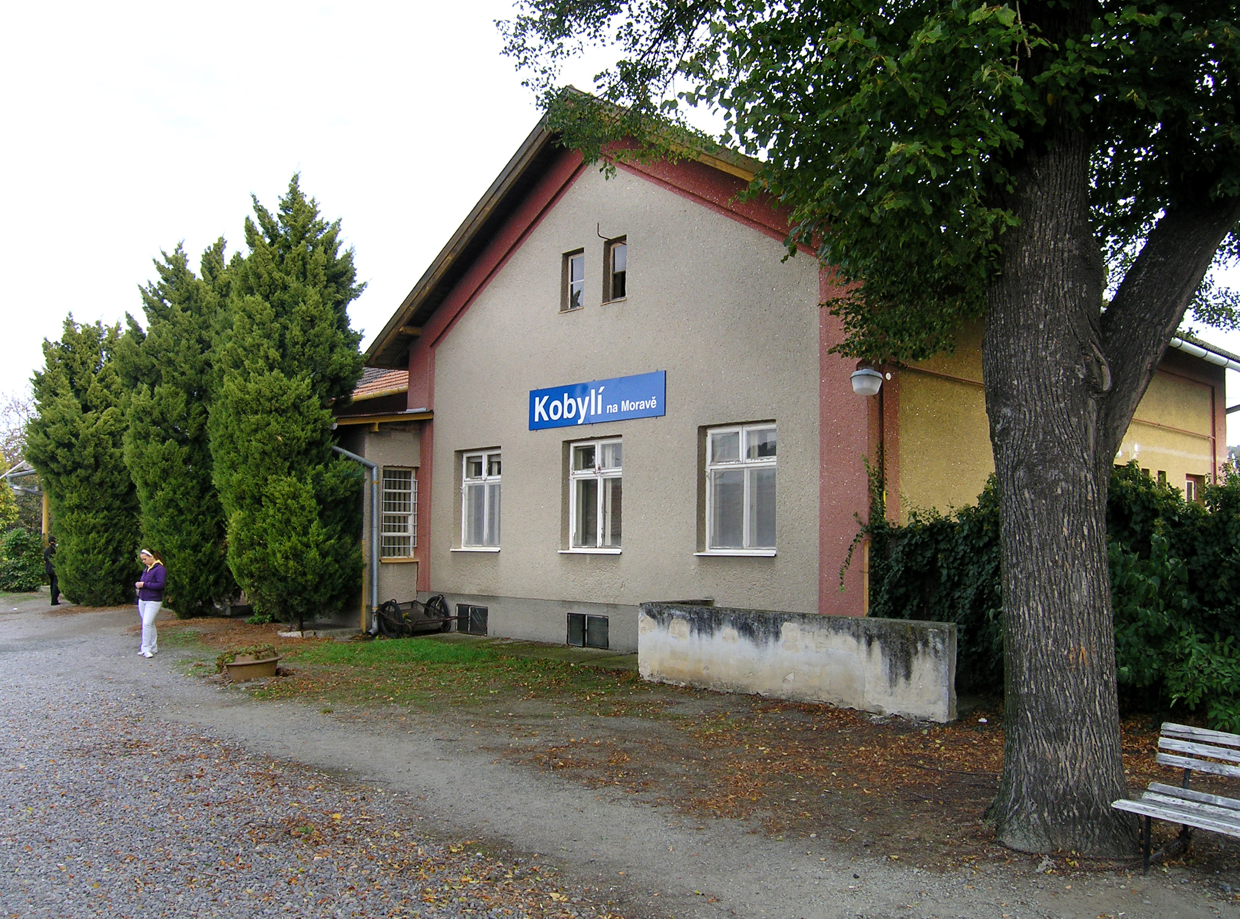 Railway station in Kobylí village, Czech Republic